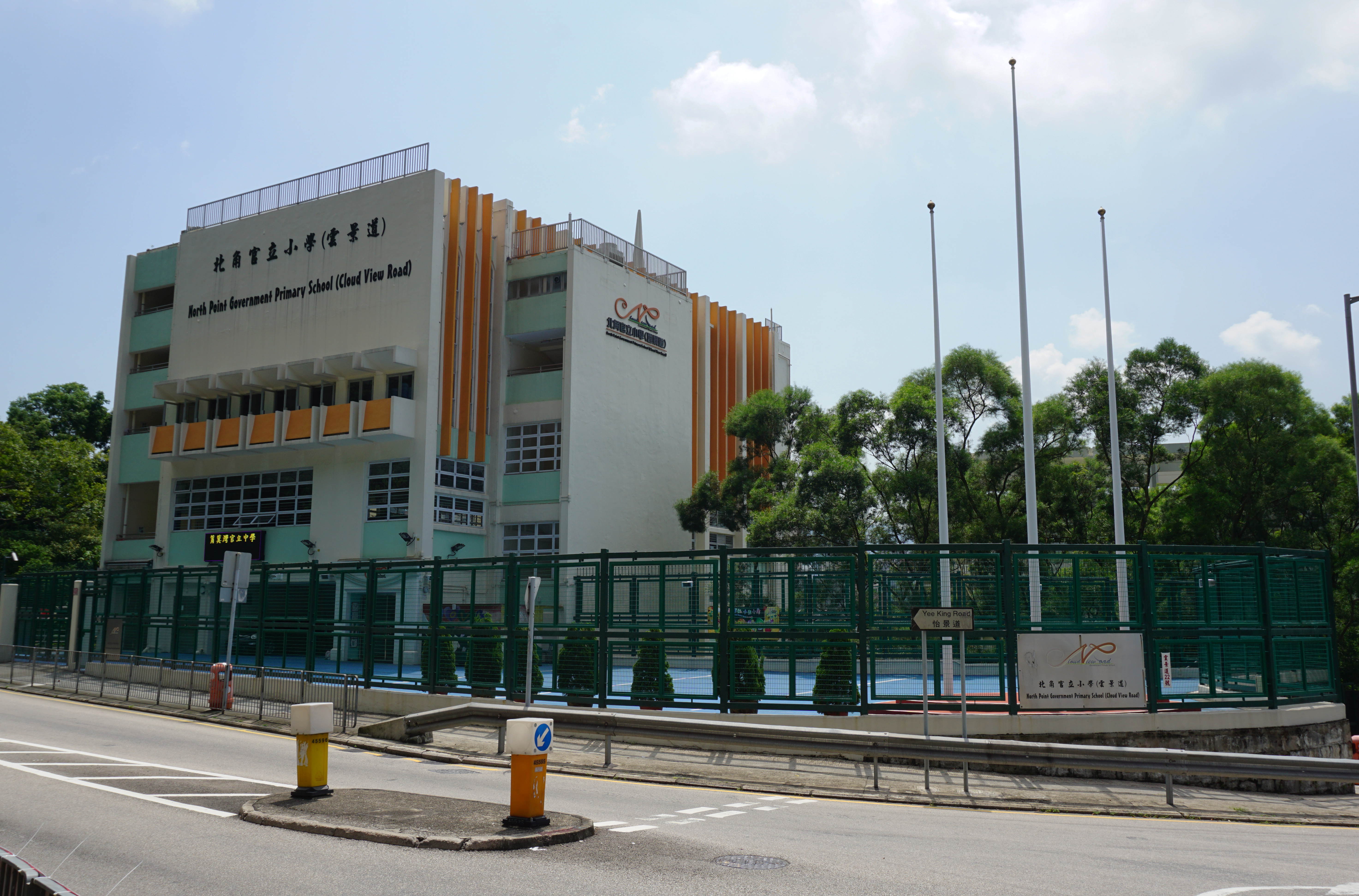 North Point Government Primary School (Cloud View Road) in Braemar Hill, Hong Kong.